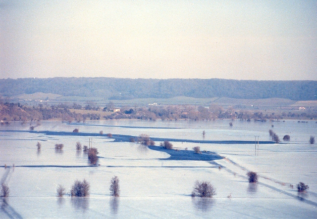 Southlake Moor in winter, taken from Burrow Mump.